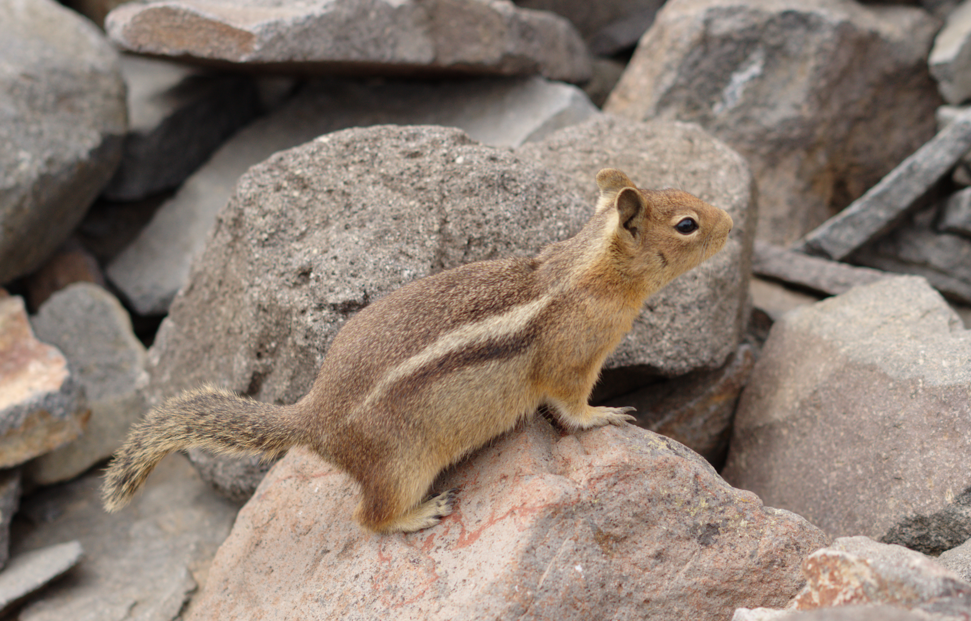 Cascade golden-mantled ground squirrel spotted on Mount Rainier in the summer at an elevation of around 8300 ft.